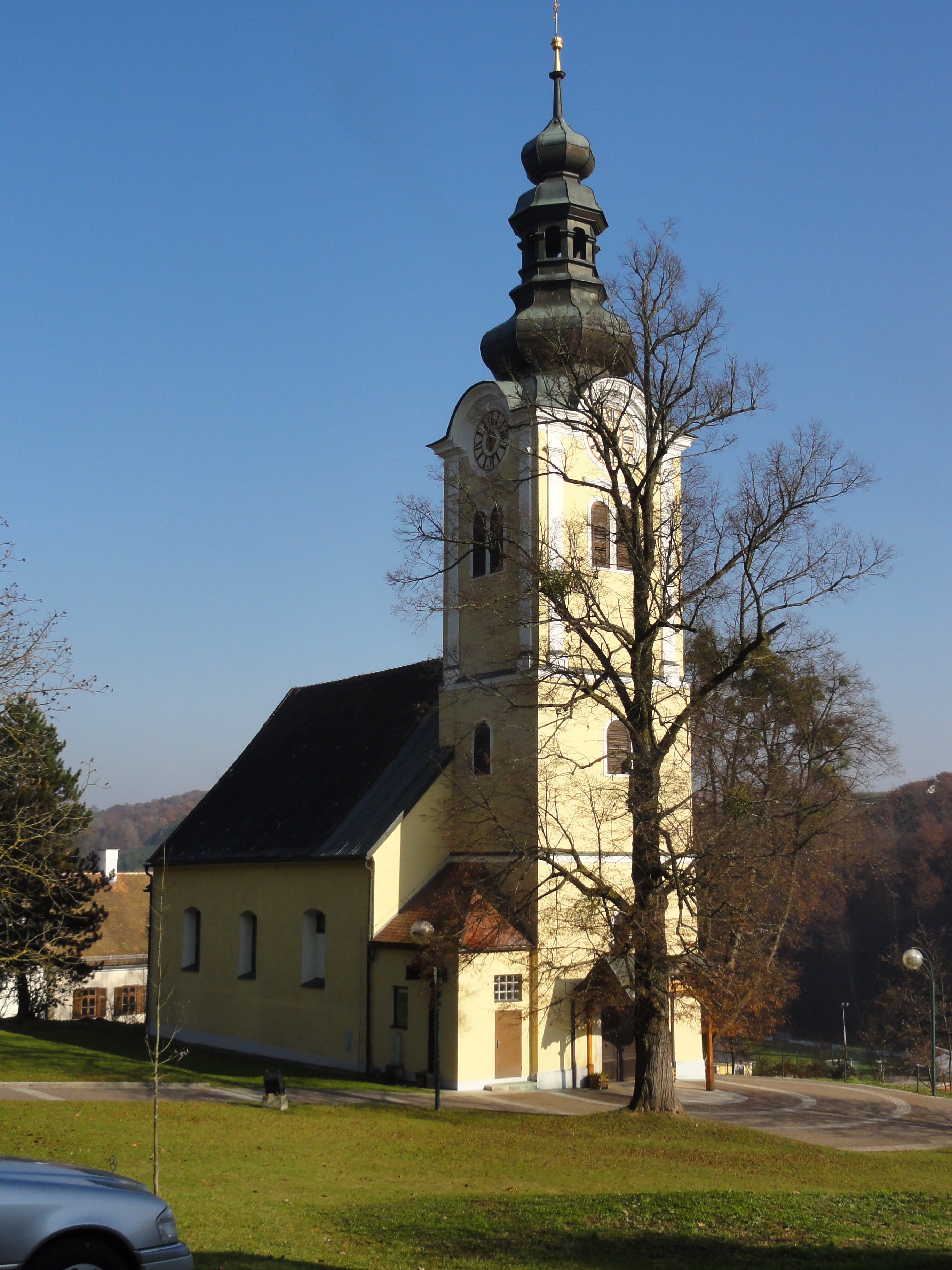 Catholic parish church Saint Stephan